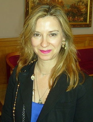 Mirjana Jokovic at National Hotel in Moscow, June 2010